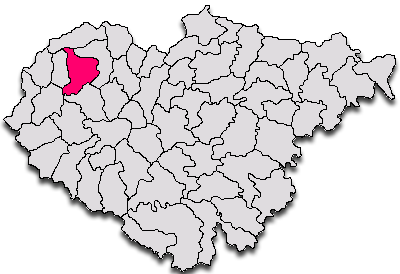 Map Salaj County Romania